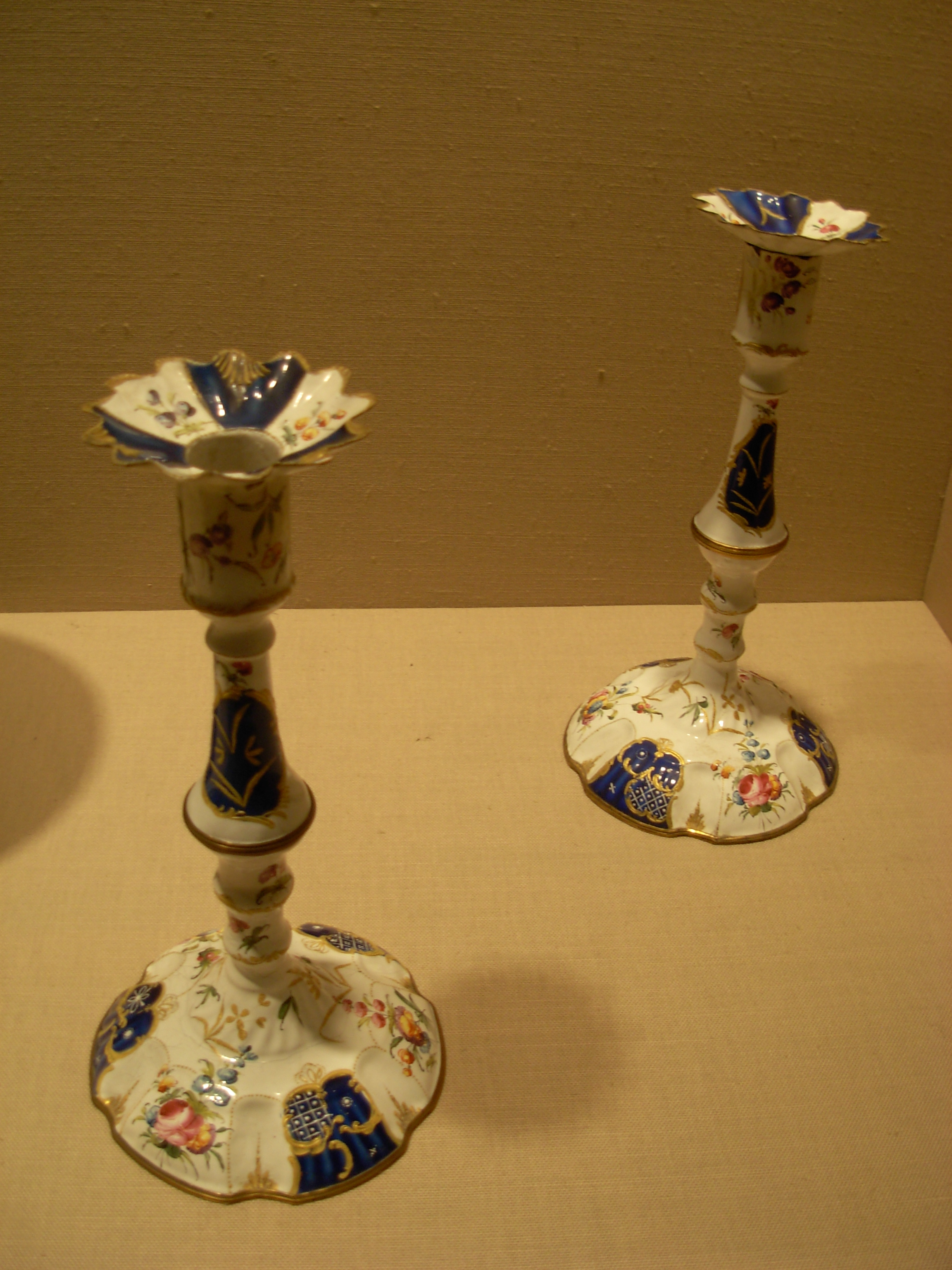 English candlesticks, c.1760-1765, enamel and gilt metal